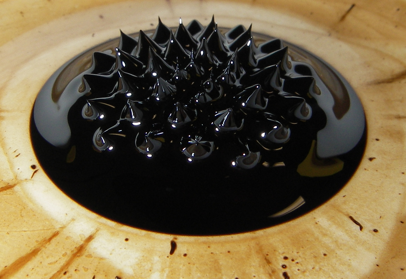 A superparamagnetic fluid, otherwise known as a ferrofluid, in a dish over a neodymium magnet.